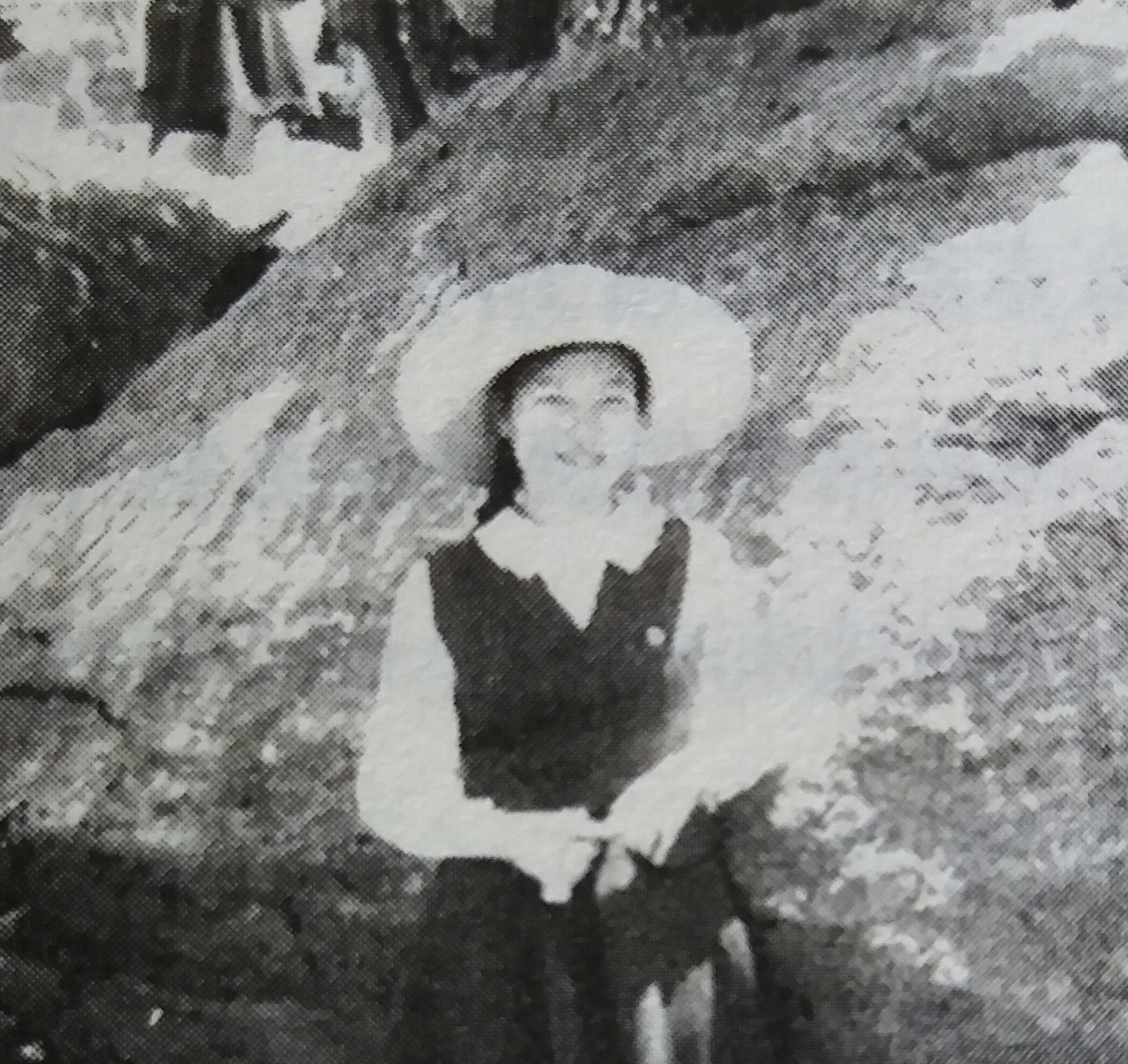 Teenage Park Geun-hye